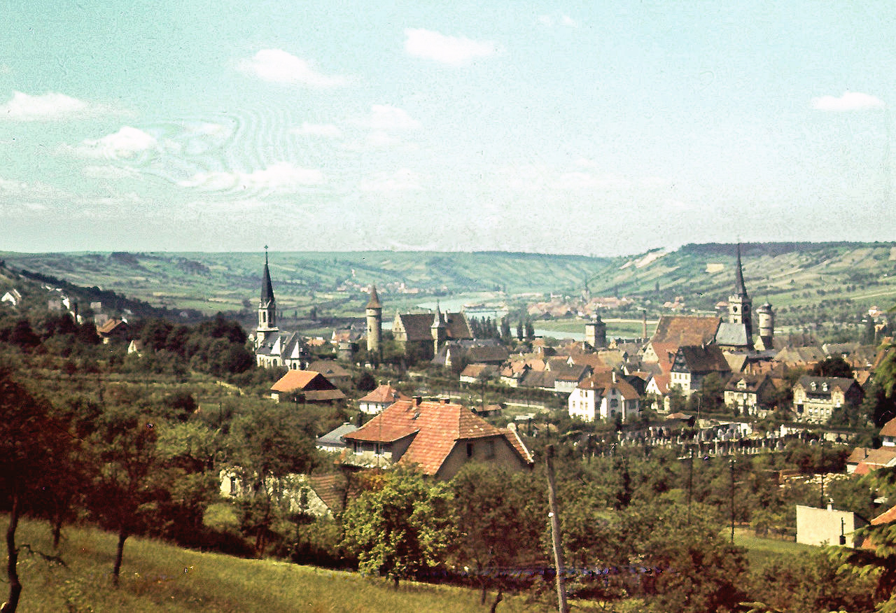 View of Ochsenfurt, Germany (undated, mid-20th century)